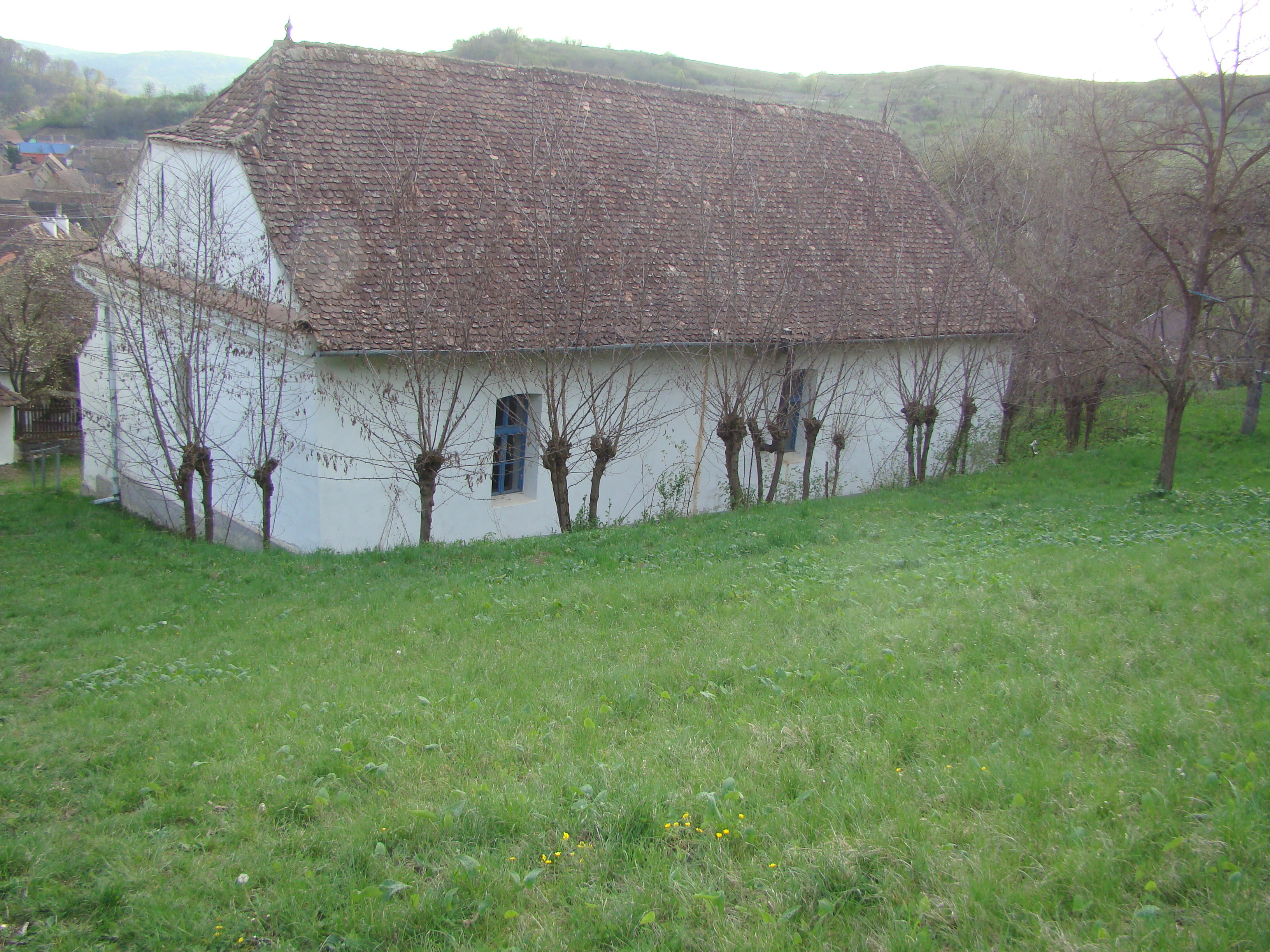 Reformed church in Mureni, Mureș county, Romania